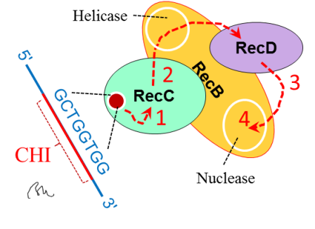 RecBCD's active - initiate in CHI site.